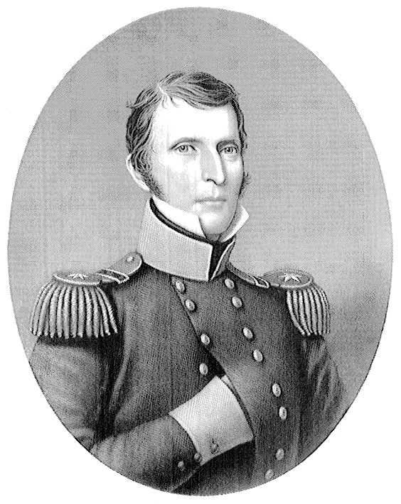 Portrait illustration of Henry Leavenworth